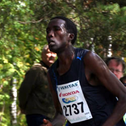 Finnish long-distance runner Francis Kirwa at eCross cross-country competition 2006. Photo by Jonny Smeds.